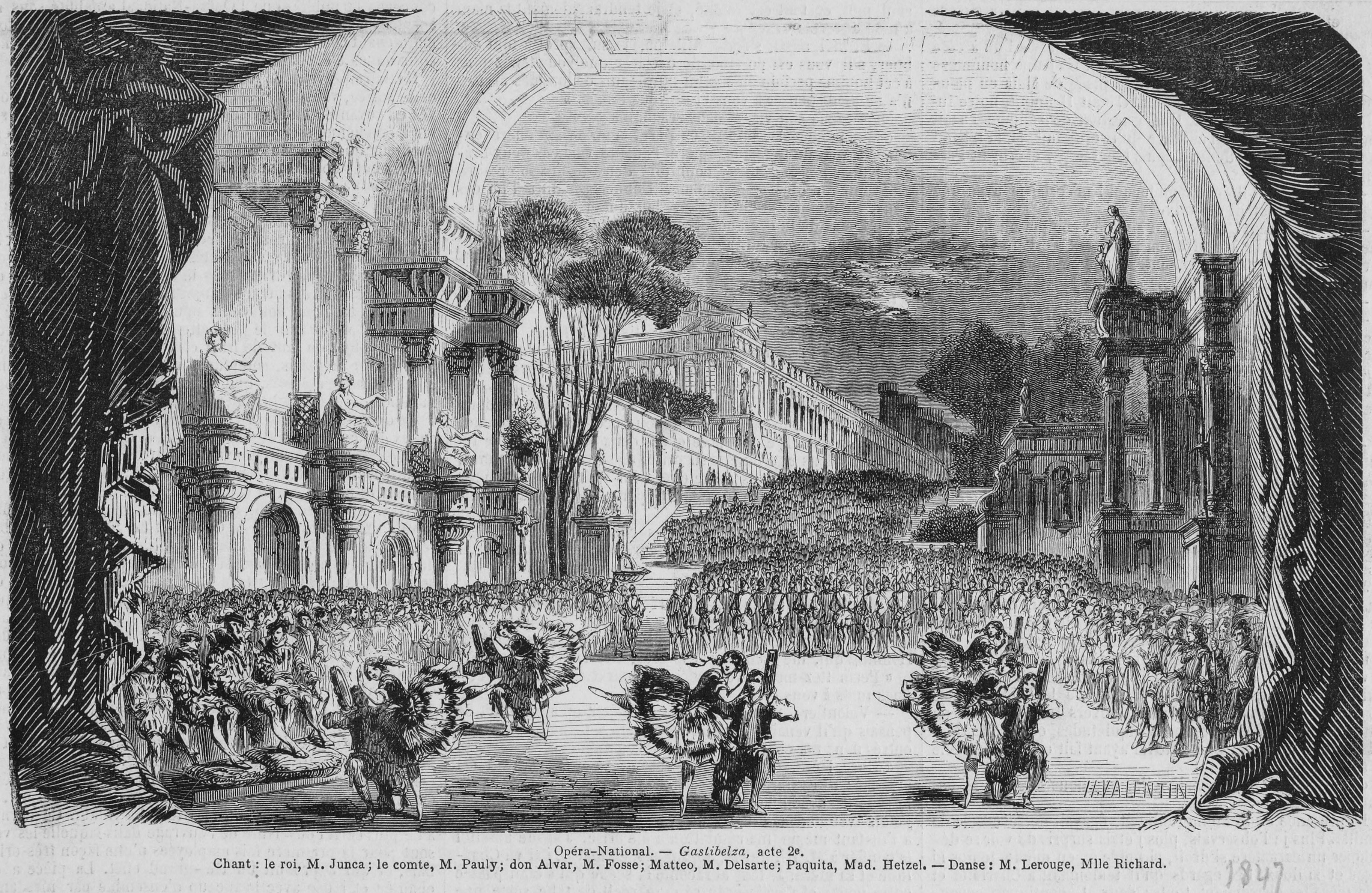 Press illustration of Act 2 of Gastibelza ou Le fou de Tolède, a 3-act opera with music by Aimé Maillart and a libretto by Adolphe d'Ennery and Eugène Cormon, which was premiered by Adolphe Adam's Opéra-National at the Cirque Olympique in Paris on 15 November 1847